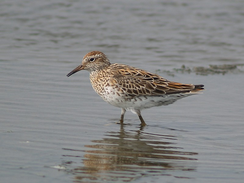 Calidris acuminata（尖尾鷸）, Changhua County, Taiwan, 2007.